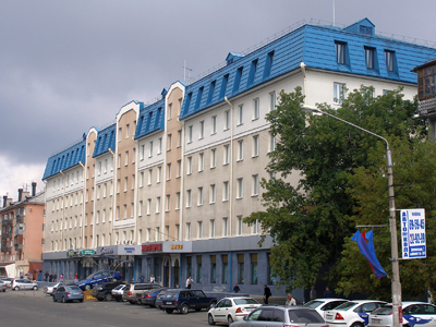 Hotel "Siberia" (Barnaul)